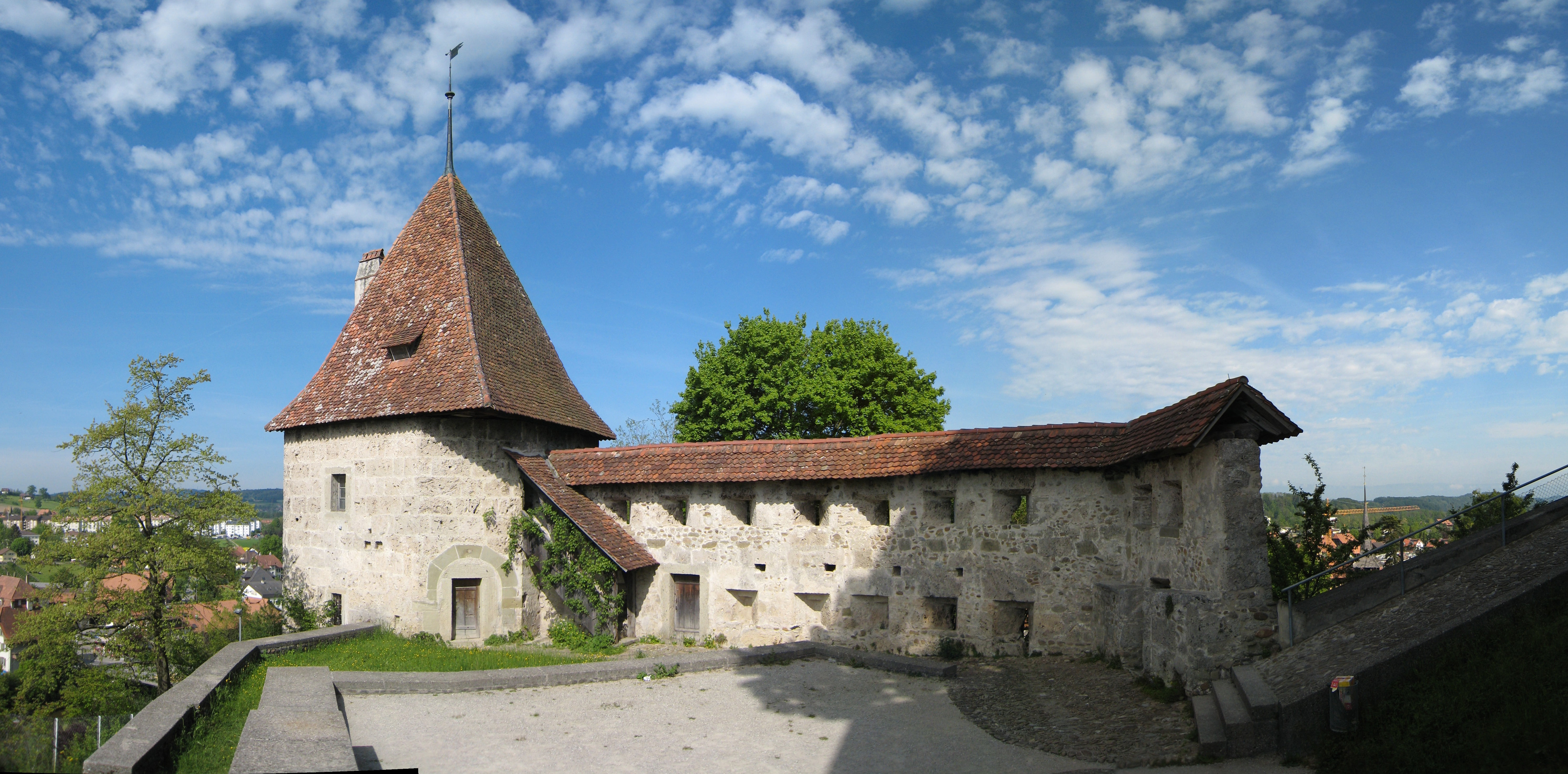 Part of the outer wall of Castle Laupen, Switzerland.